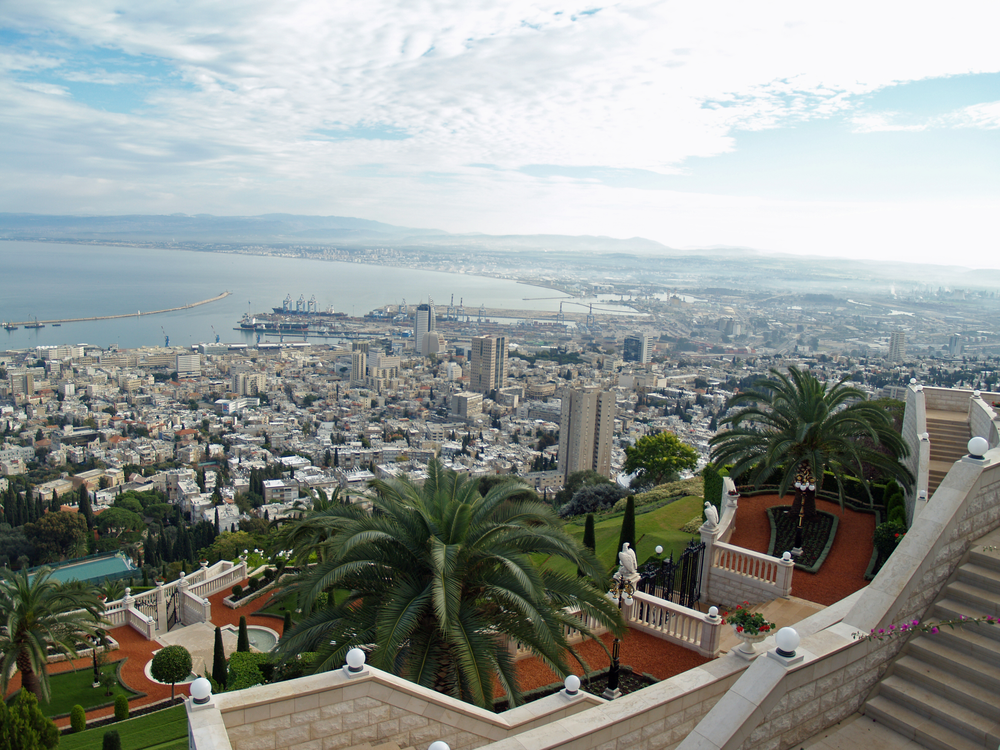 Haifa from Baha'i gardens